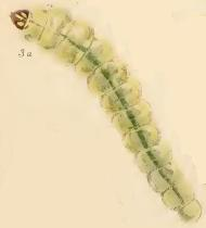 Stainton’s Natural History of the Tineina (1855–1873): Phyllonorycter rajella larva